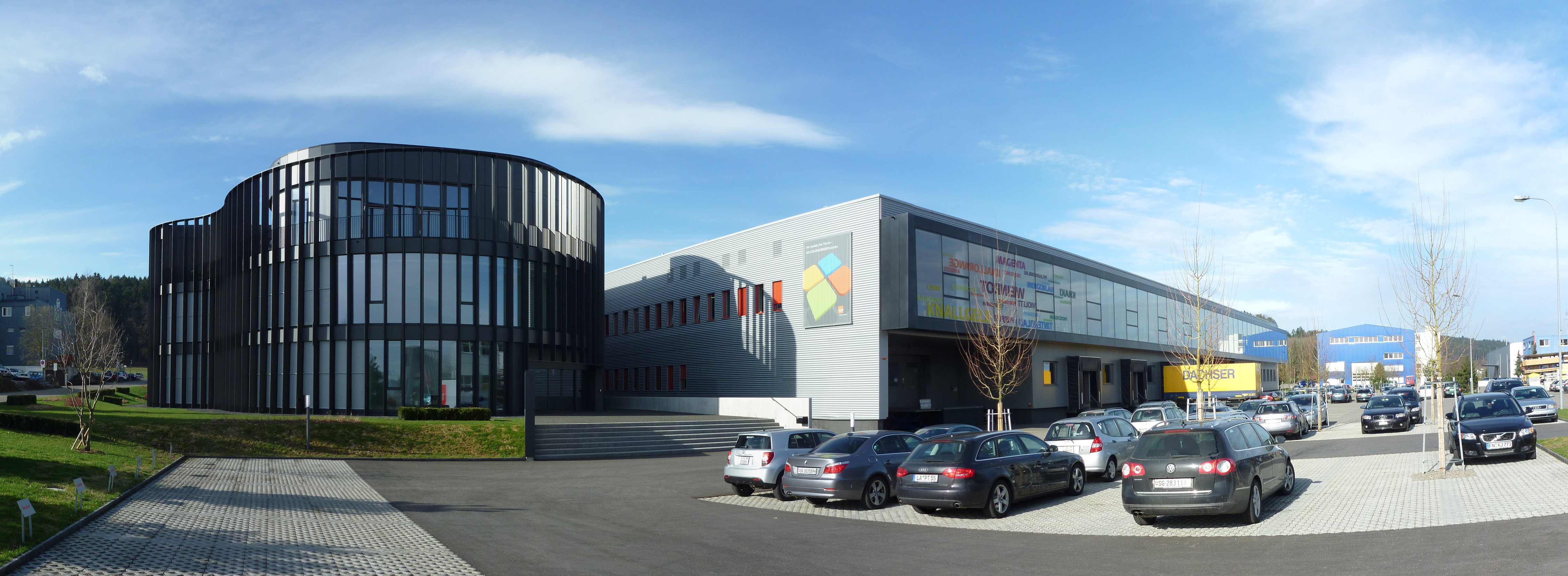 IGP headquarters in Stelz, Kirchberg SG, Switzerland. Stichted out of 3 pictures